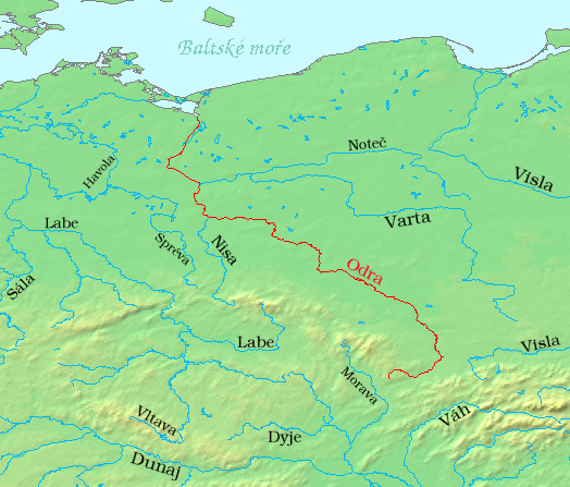 Obrázek vytvořen z mapy Topographic30deg N30E0.png na Wikimedia Commons (Map created from DEMIS Mapserver, which are public domain)